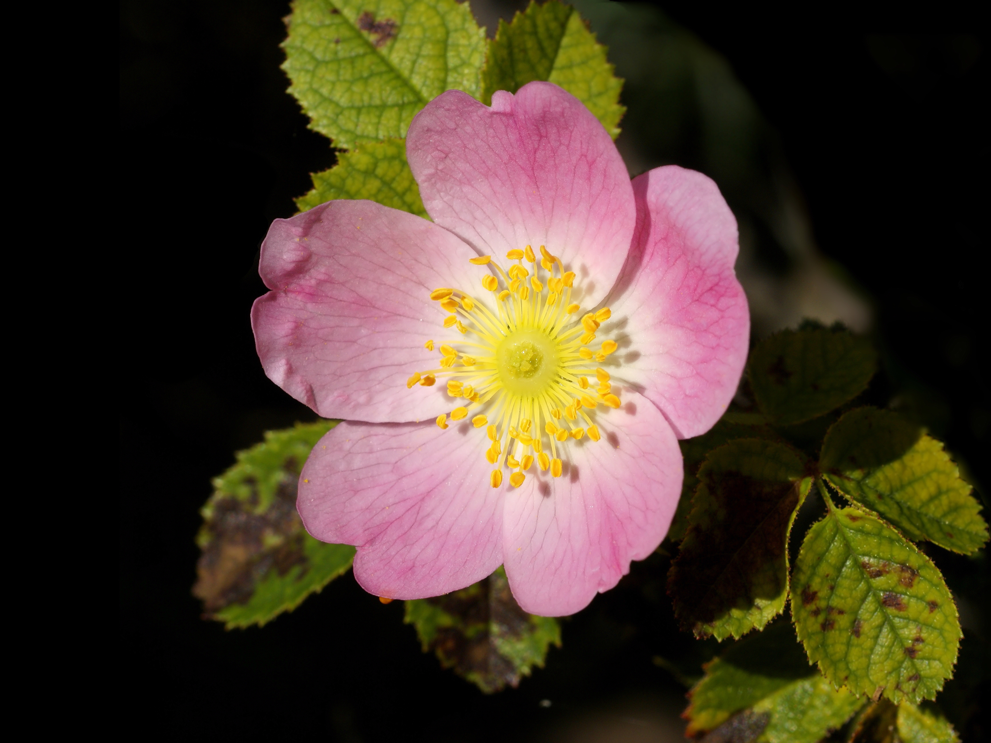 Wild rose, close to Zwarte Kiezel, De Haan, Belgium